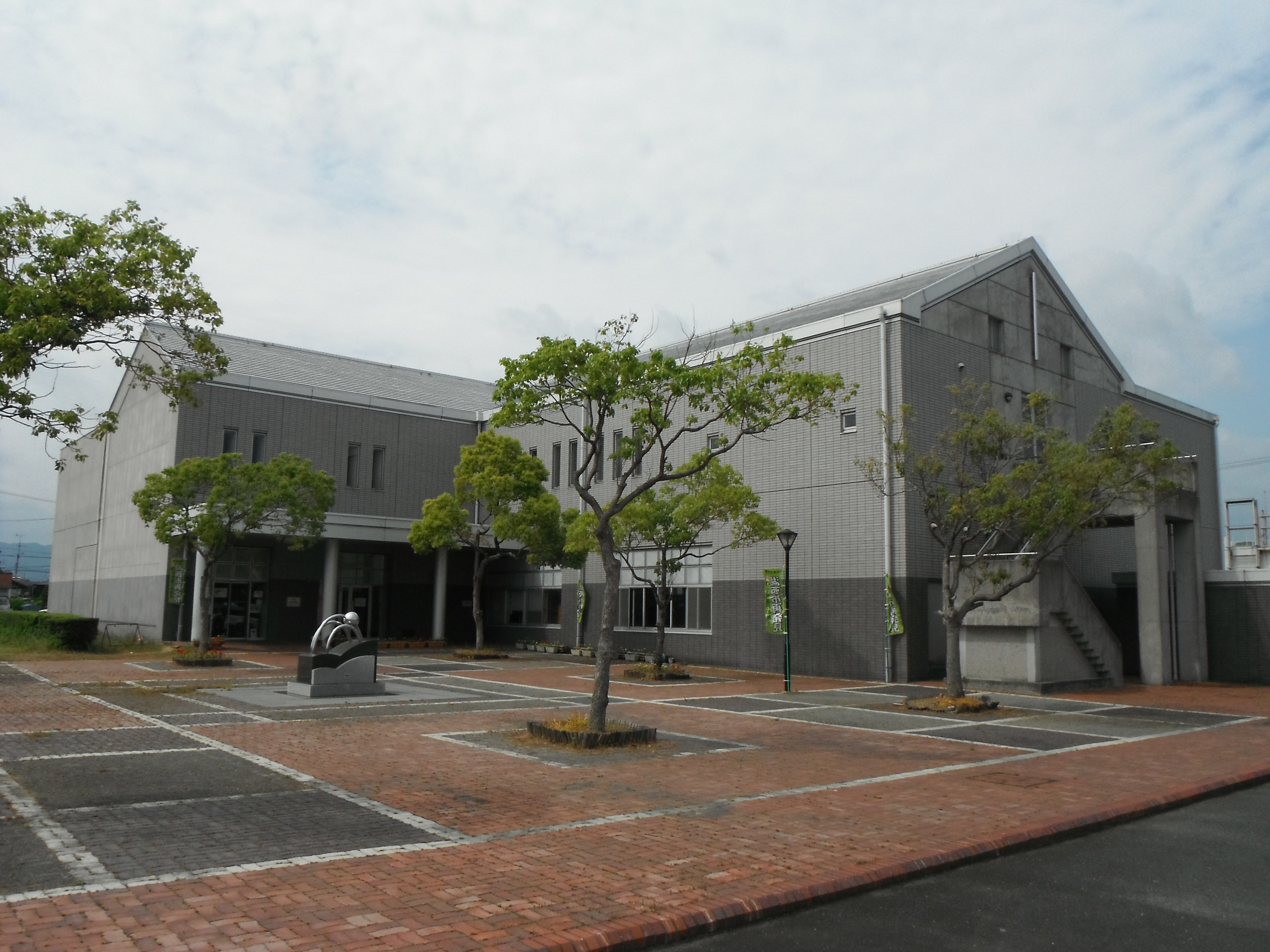 Kosai City Central Library in Kosai city, Shizuoka prefecture, Japan.